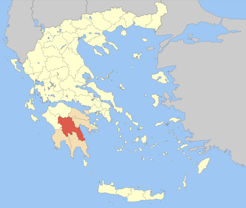 Locator map of Arcadia prefecture (Νομός Αρκαδίας) in Greece